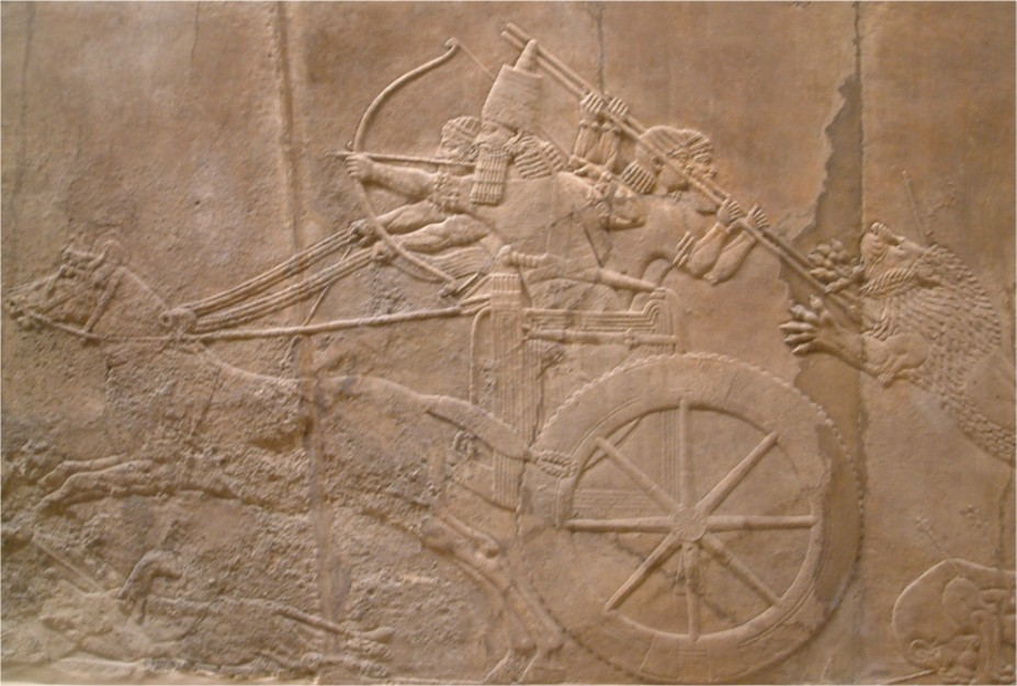 The Royal Lion Hunt at the British Museum from the North Palace Nineveh 645-635BC. The king is shooting arrows while attendants repulse an attack from a wounded lion.